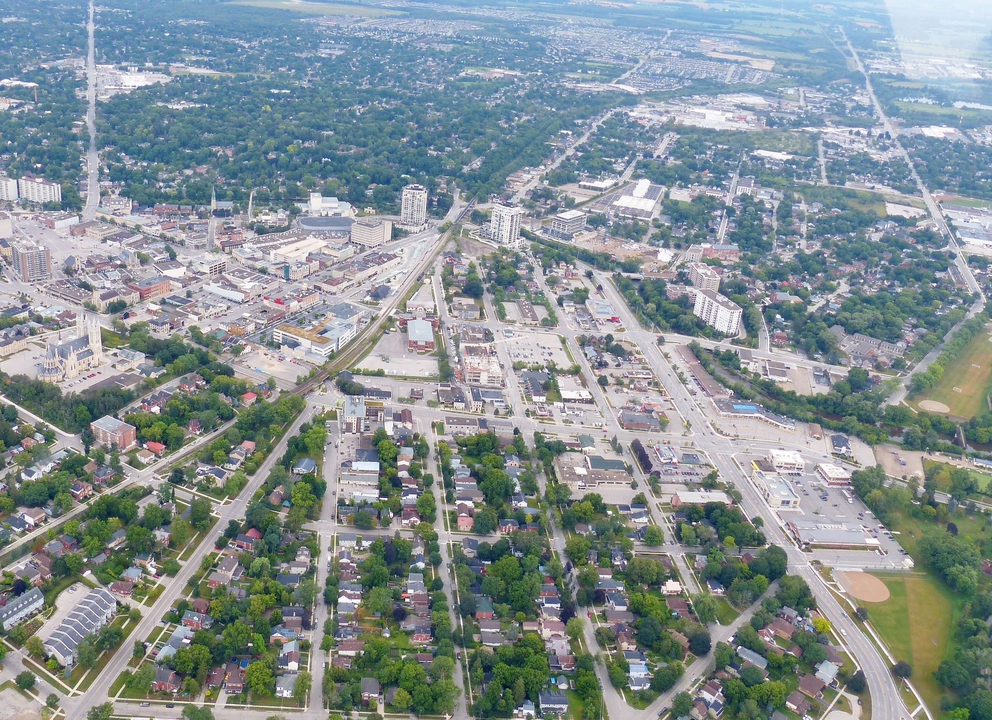 Downtown Guelph from the air. The evolution of John Galt's radial street plan is evident. The road in the upper left of frame is Eramosa Road, which heads due north. At the right is York Road, Highway 7, that heads towards Rockwood. The four lane road on the lower right is Wellington Street. The photo was taken from a Cessna 152 C-FQZB owned by pilot Bill Carius.